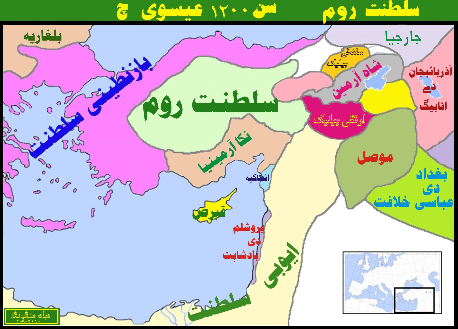 Map of Sultanate of Rum in Punjabi.